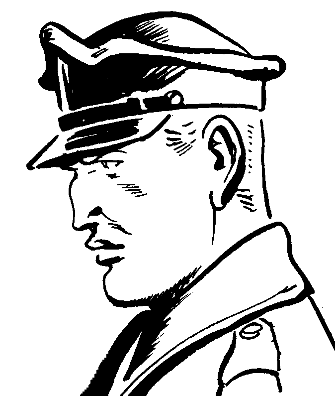 Sgt. Pat of Radio Patrol cartoon figure.